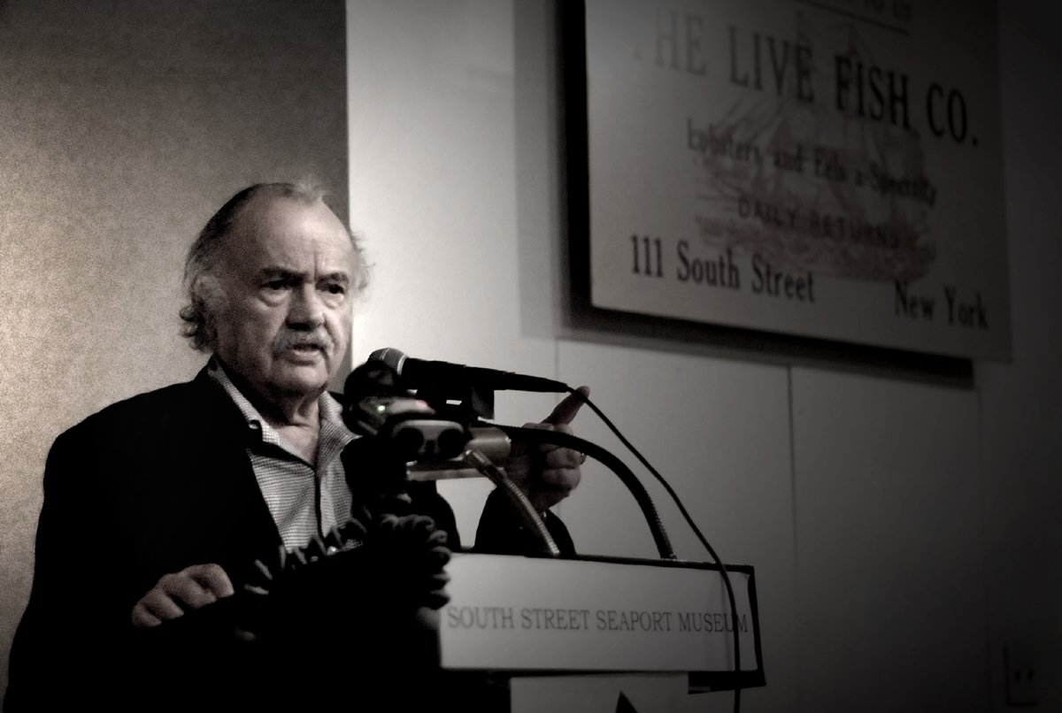 Ron Goulart F&SF 60th Anniversary South Street Seaport 2009-10-06